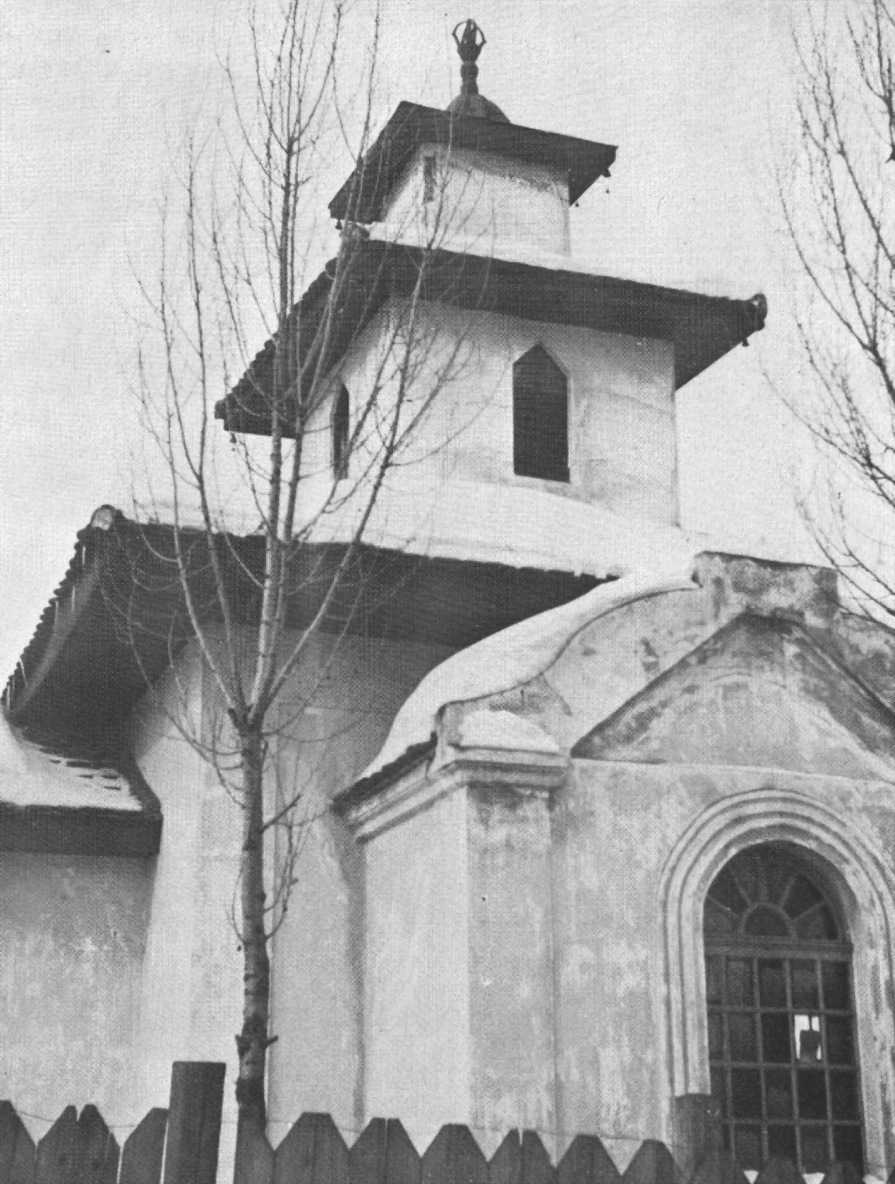 An exiled Kalmyk's home and Buddhist temple in Belgrade.